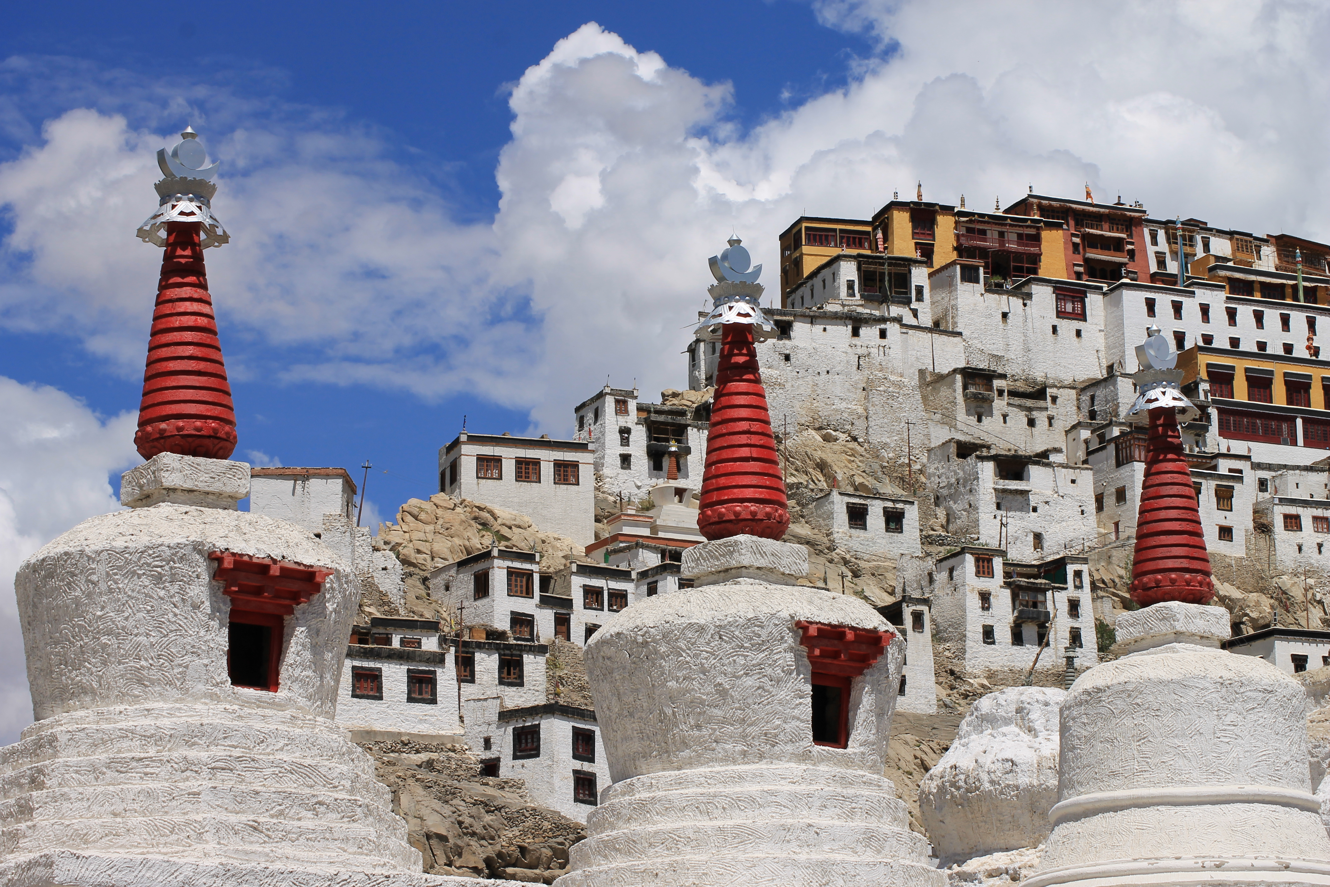 During the summer of 2012